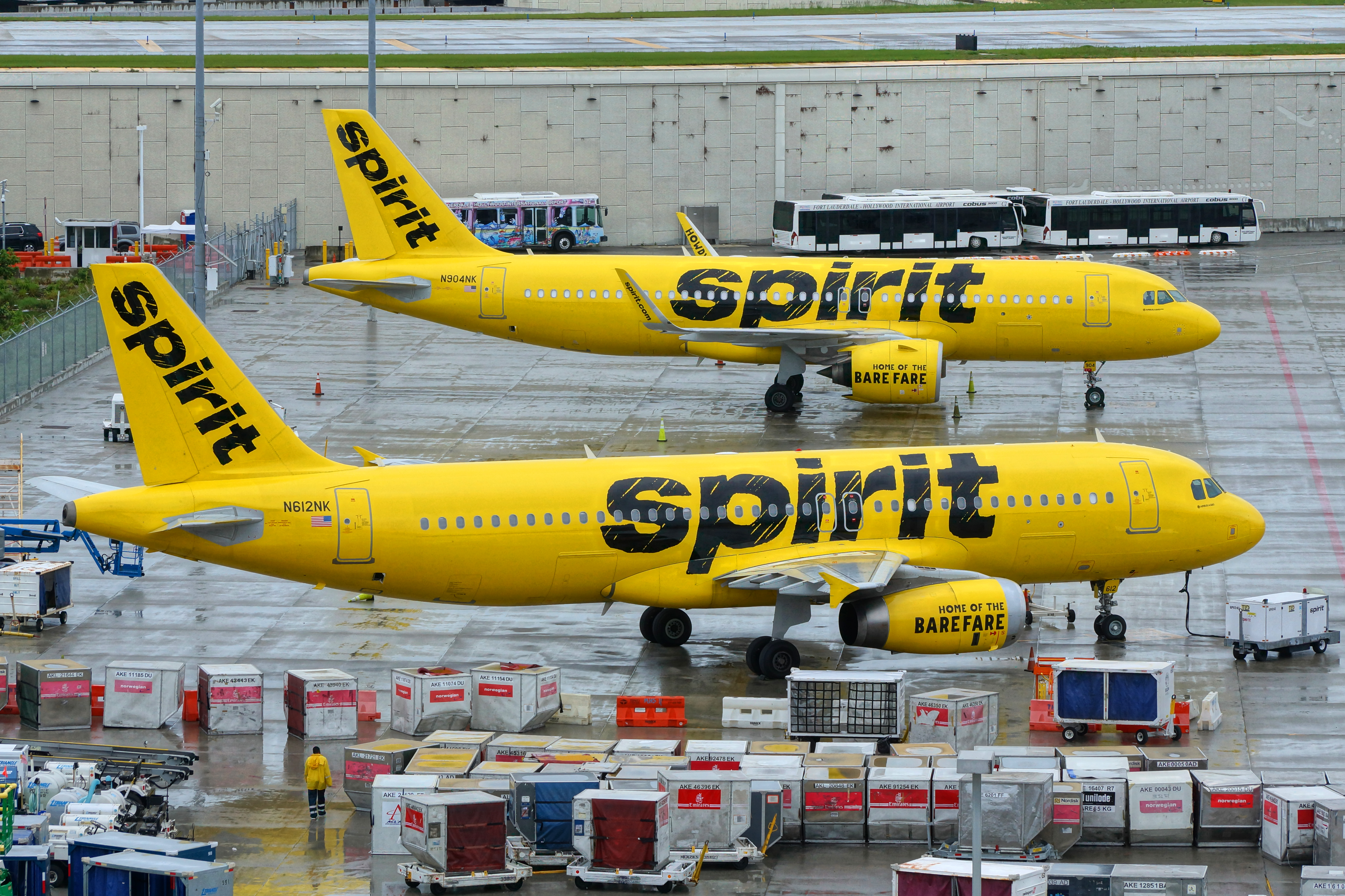 Drove through Monsoon rains to get to FLL to catch AS "More to Love" and Karma stopped the rain just in time for the arrival. I snuck in some other shots while I was waiting! It was a great evening to spend an hour up top.